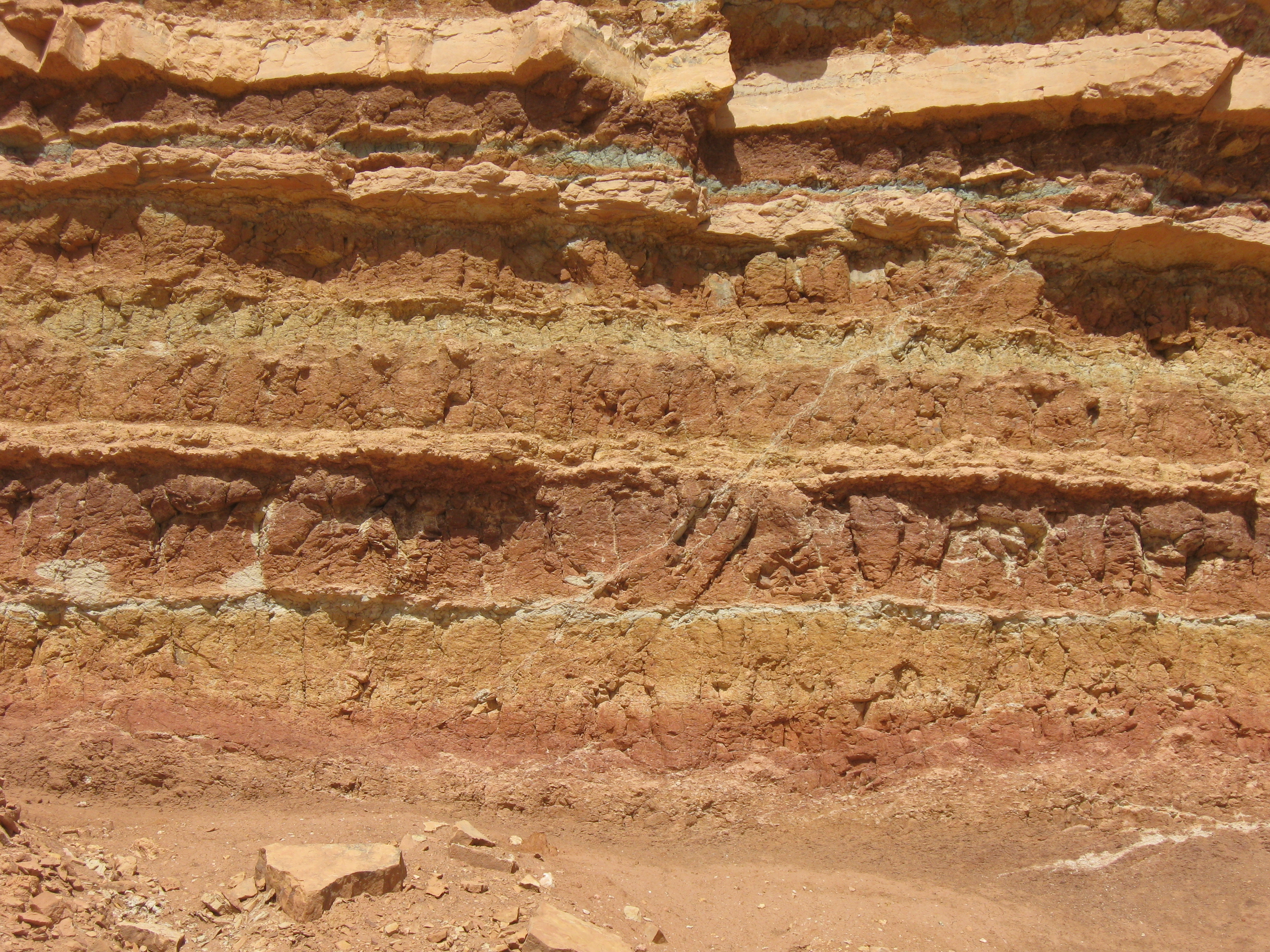 A Strata in beautiful colors in Makhtesh Ramon, Negev, Israel